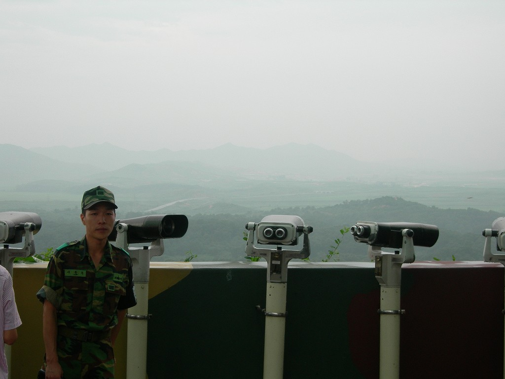 Vision from Dora Observatory